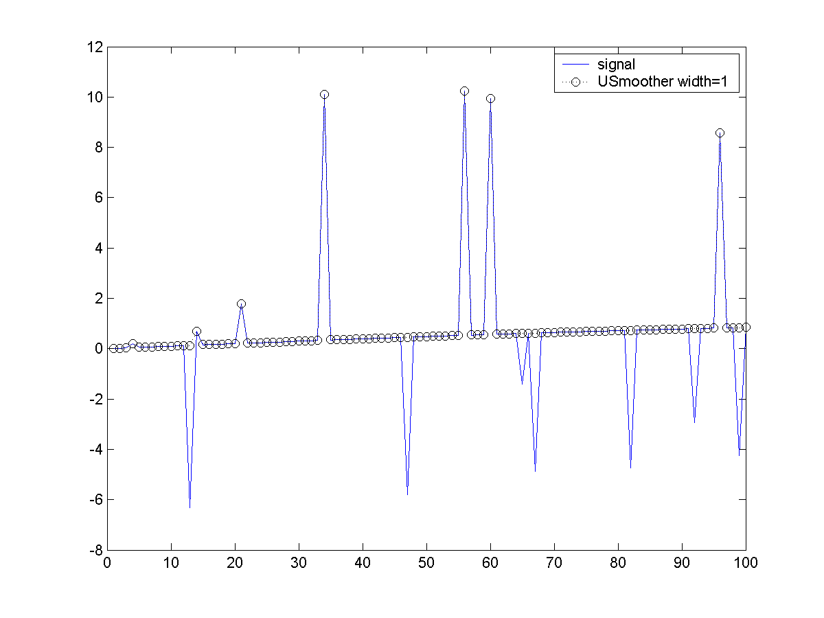 Application of U Smoother of width 1 to sample data